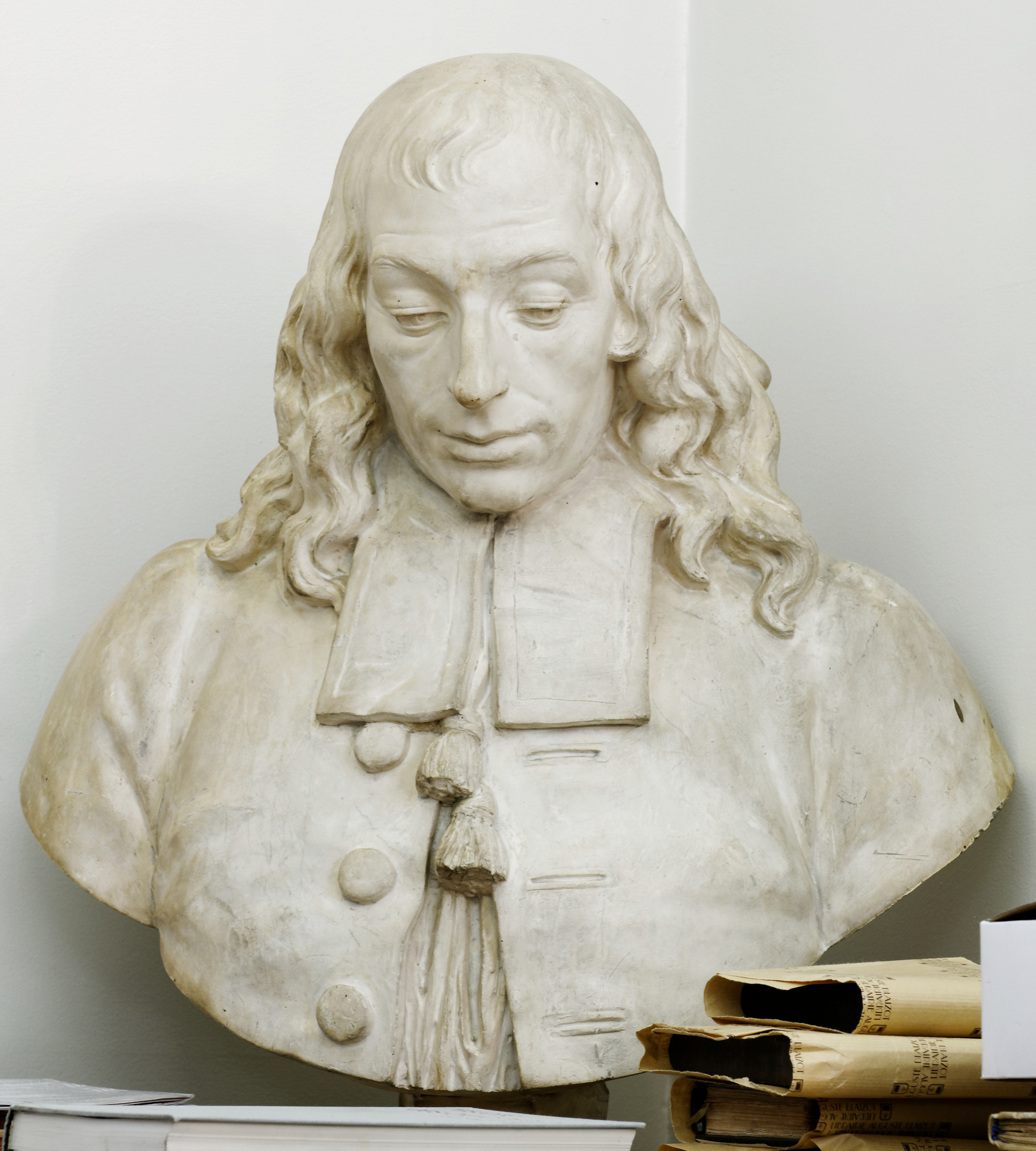 Bust of Blaise Pascal.